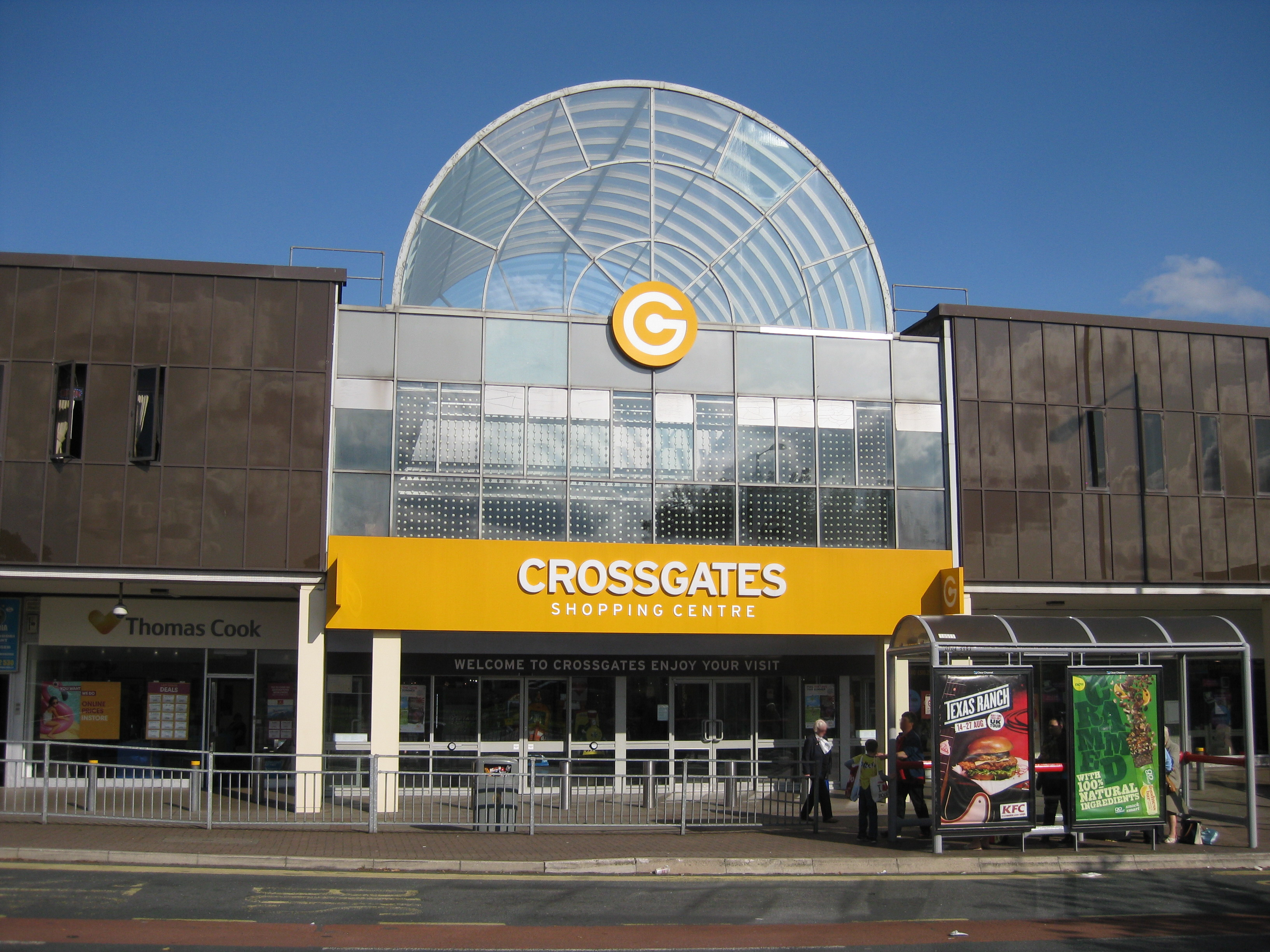 Entrance to Cross Gates shopping centre, Station Road, Leeds LS15.